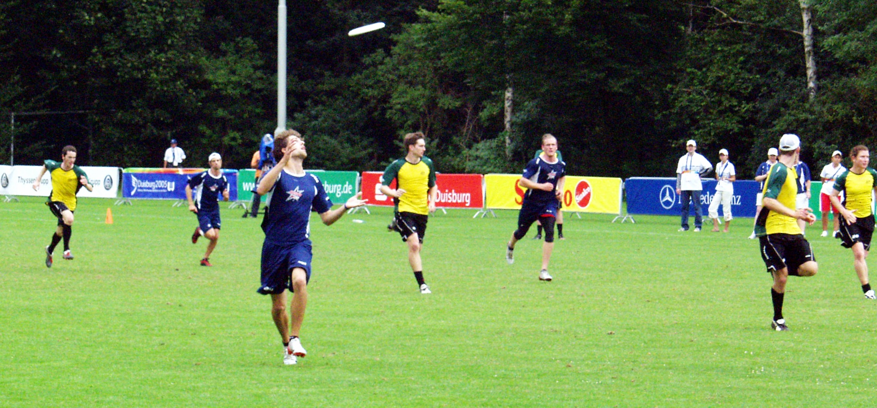 Finals of the Ultimate Frisbee competitions, USA-AUS, World Games 2005, Duisburg, Germany.